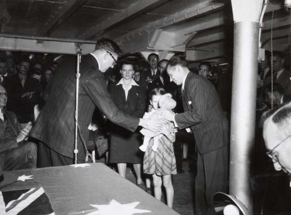 Mr Arthur Calwell with the Kalnins family - the 50,000th New Australian - CU914/1 - ref: Post war immigration to Australia. About Maira Kalnins, "the 50,000th New Australian", her story, and the context, see : Maira Kalnins, the 50,000th New Australian, on Destination : Australia, National Archives of Australia Cost of a kiss: the Displaced Persons Program, National Archives of Australia, 2007 How a puzzled little girl became the chosen one, The Herald, 2015 Memories flow as Greta Migrant Camp families prepare to celebrate anniversary, The Maitland Mercury, 2015 Selling “new Australians” to old Australians, Inside Story, 2017 Arthur Calwell and the gift of immigration, Museum of Australian Democracy at Old Parliament House, 2017 Neumann, Klaus, "Providing A 'home For the Oppressed'? Historical Perspectives on Australian Responses to Refugees" [2003] AUJlHRights 13; (2003) 9(2) Australian Journal of Human Rights 1